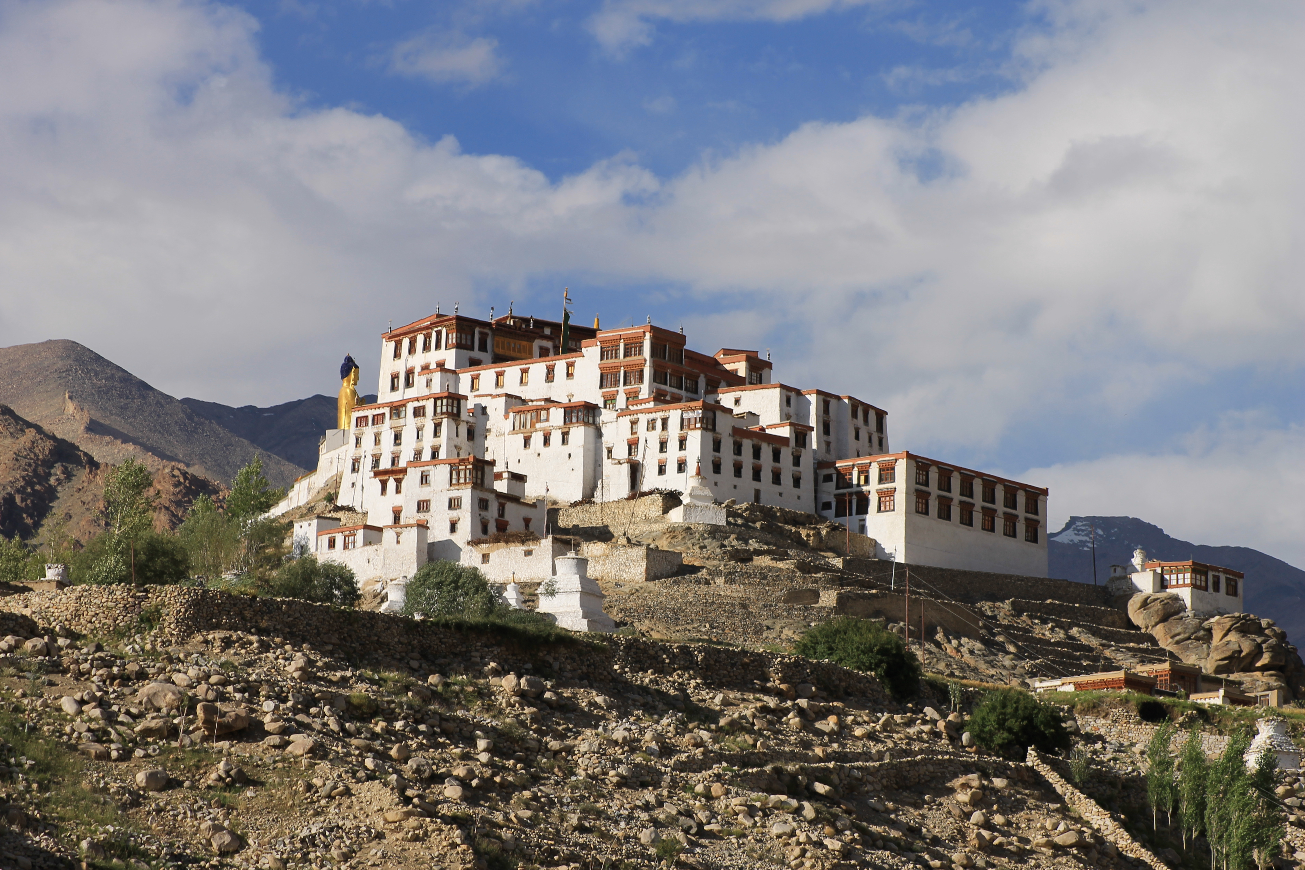 Tha amazing view of the monastery from the road.